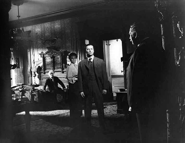 Still photo from the 1942 film The Magnificent Ambersons